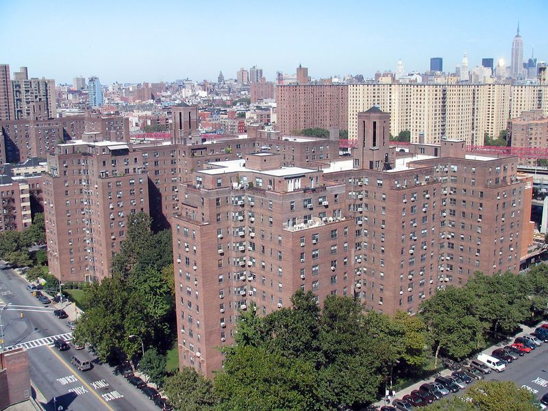 Foreground: Hillman Housing buildngs at 550 Grand Street (closest) and 530 Grand Street in Cooperative Village in the Lower East Side of Manhattan.